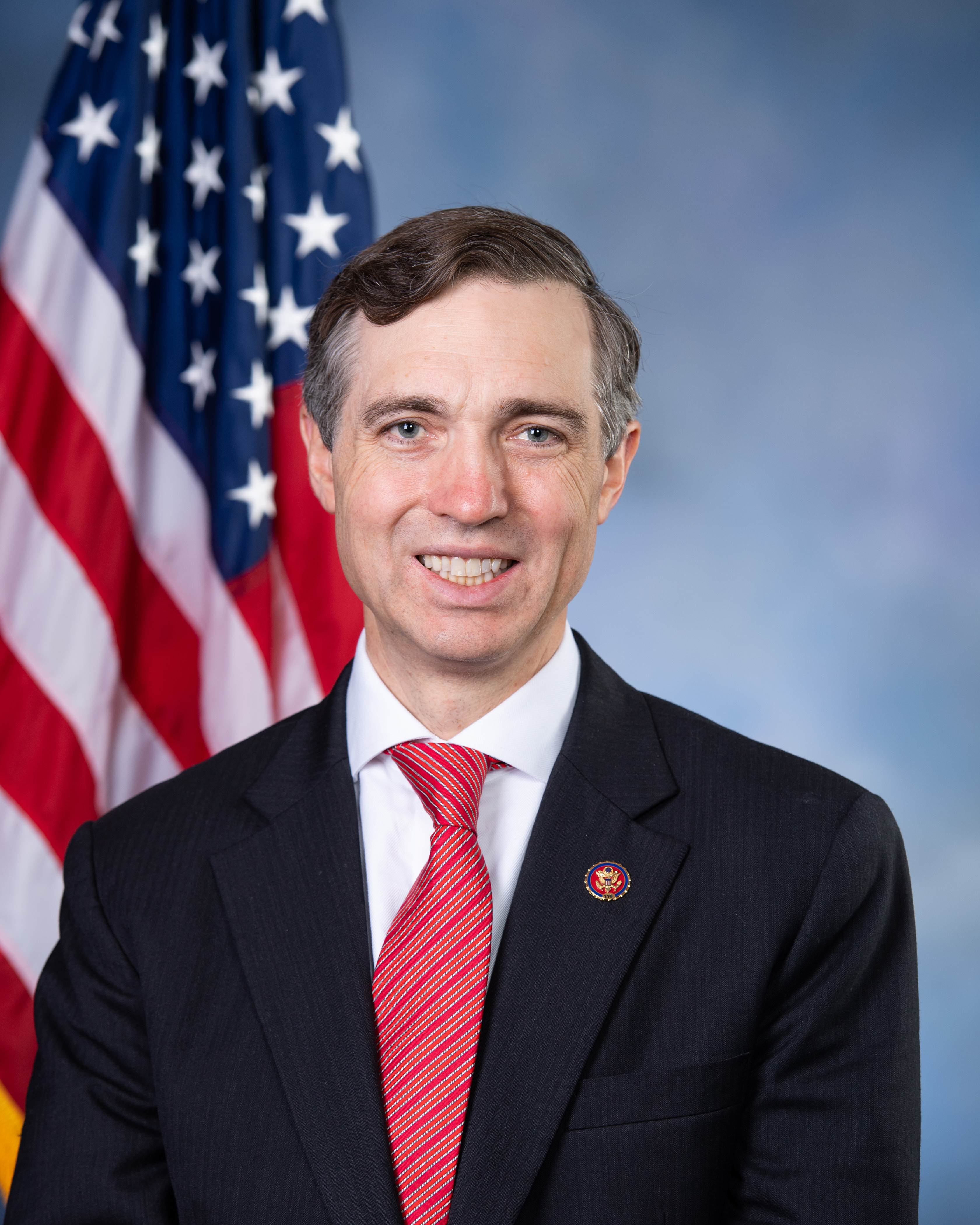 The official headshot of Rep. Van Taylor (R-TX)